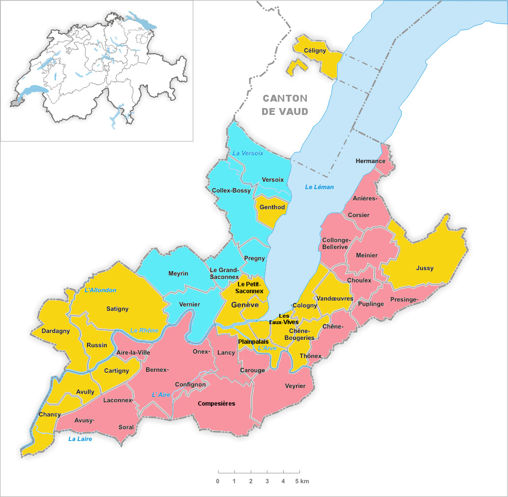 Geneva communes at the time of the creation of the canton in 1815-1816, based on present borders. In yellow Geneva city and its former territories, in pink the communes ceded by Savoy, in sky blue those ceded by France.